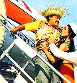 Cropped image of a lobby card for the 1973 Mexican film El bueno para nada, with Capulina (left) and Lina Marín (right).